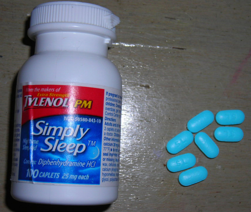 Tylenol simple sleep and pills